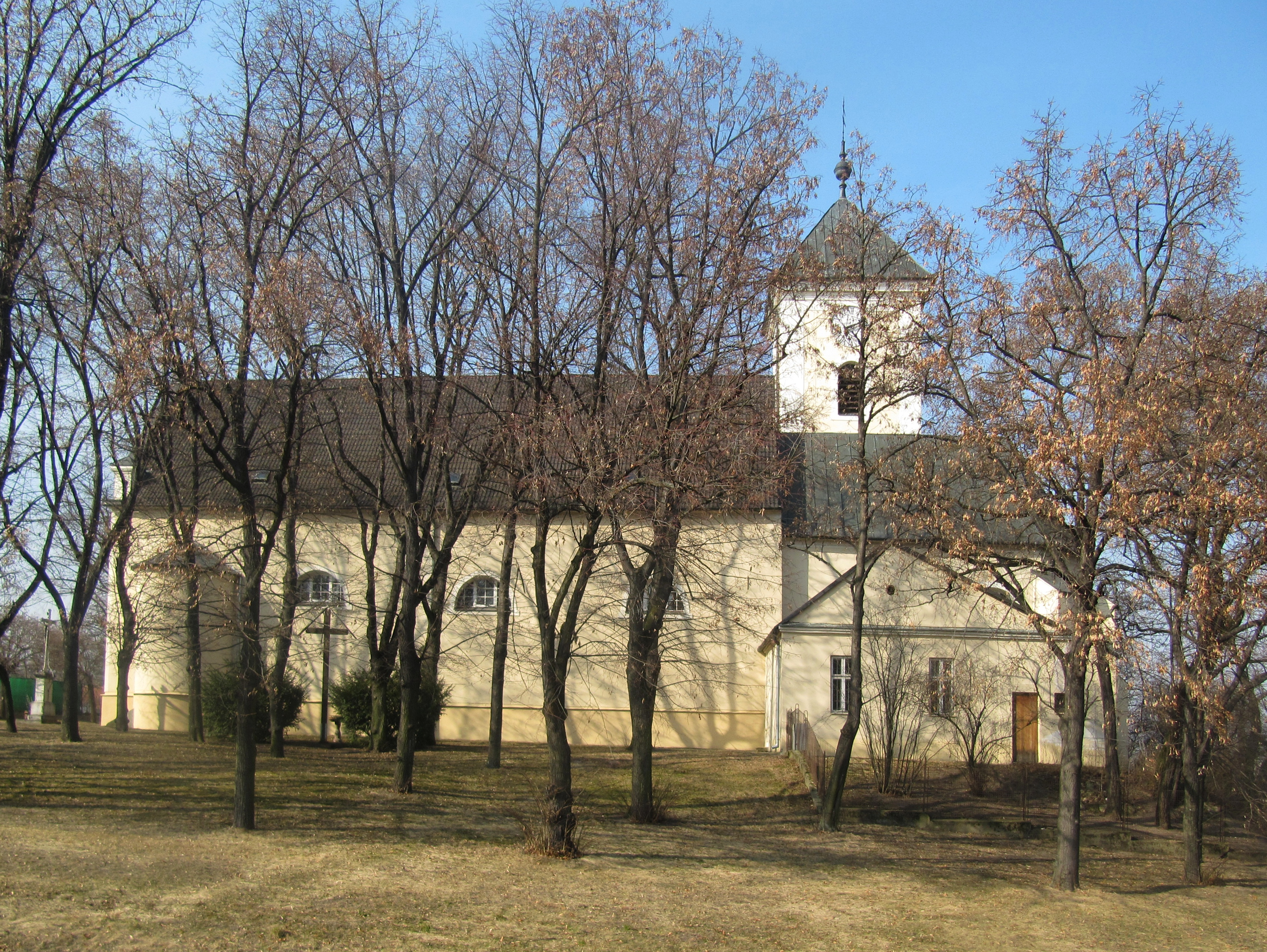 Křenovice in Vyškov District, Czech Republic. Saint Laurence-church.